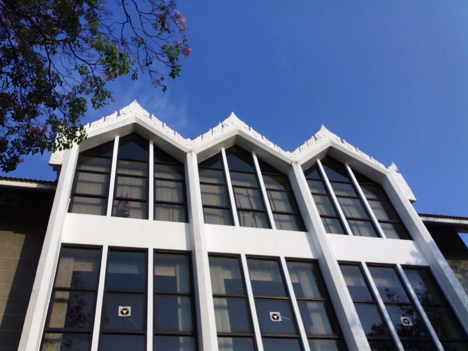 Main auditorium of Kasetsart University (Bangkok)